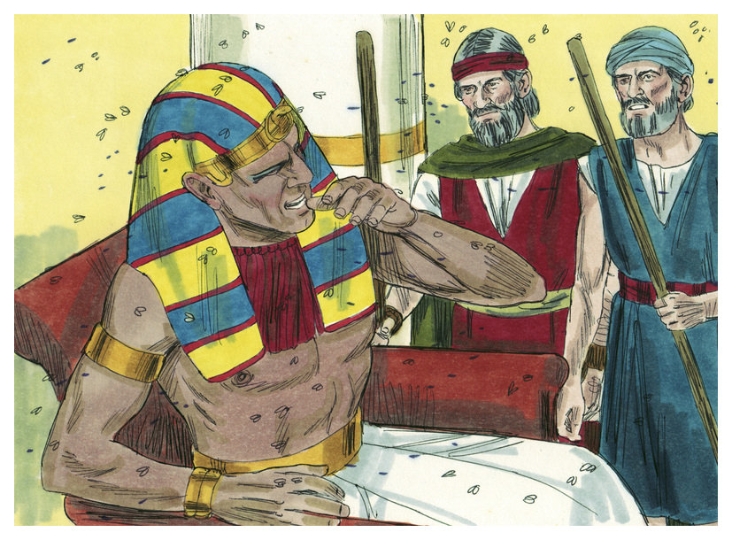 Biblical illustration of Book of Exodus Chapter 9